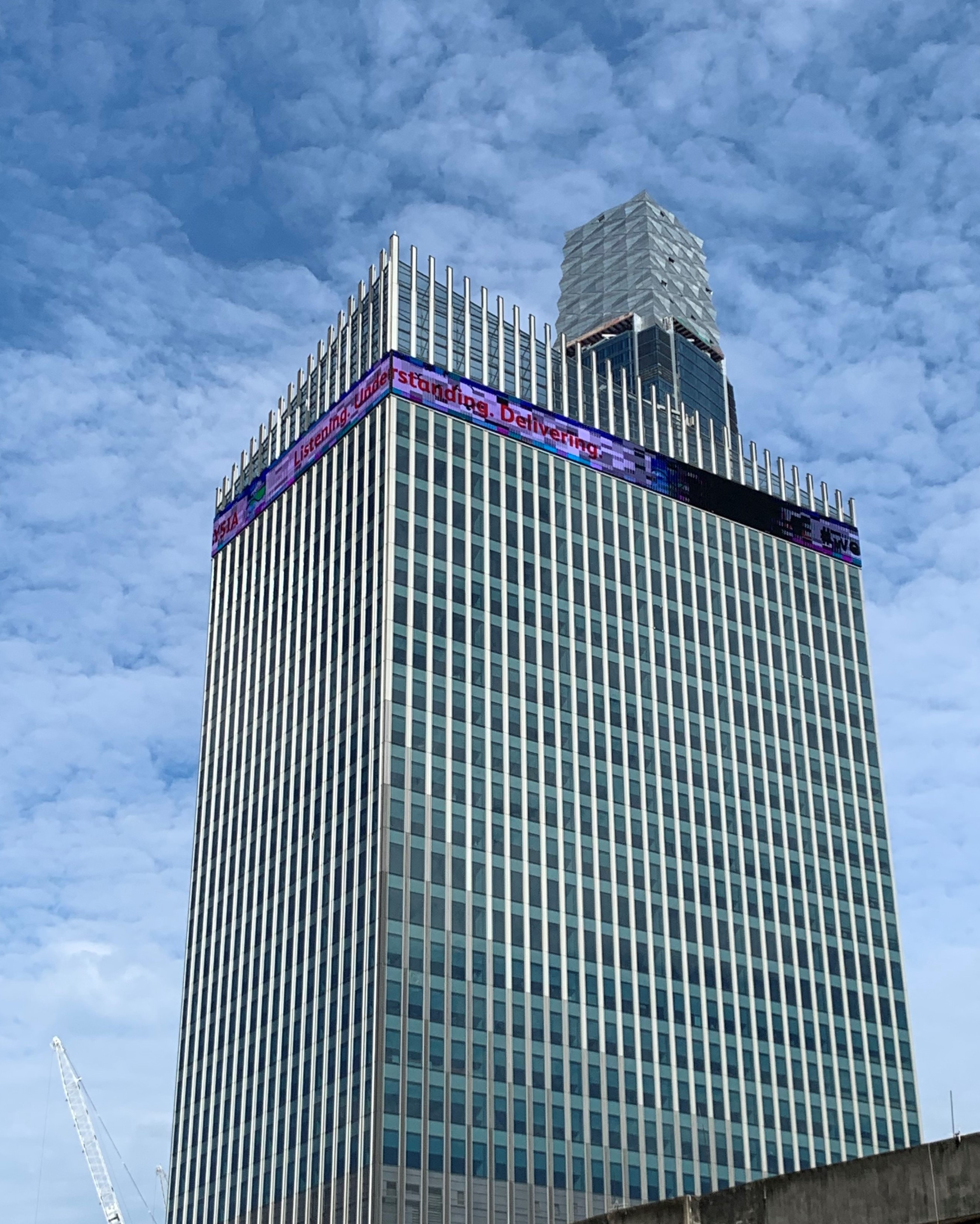 A view of Menara Prudential, in Tun Razak Exchange, Kuala Lumpur, Malaysia